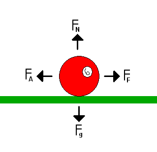 force